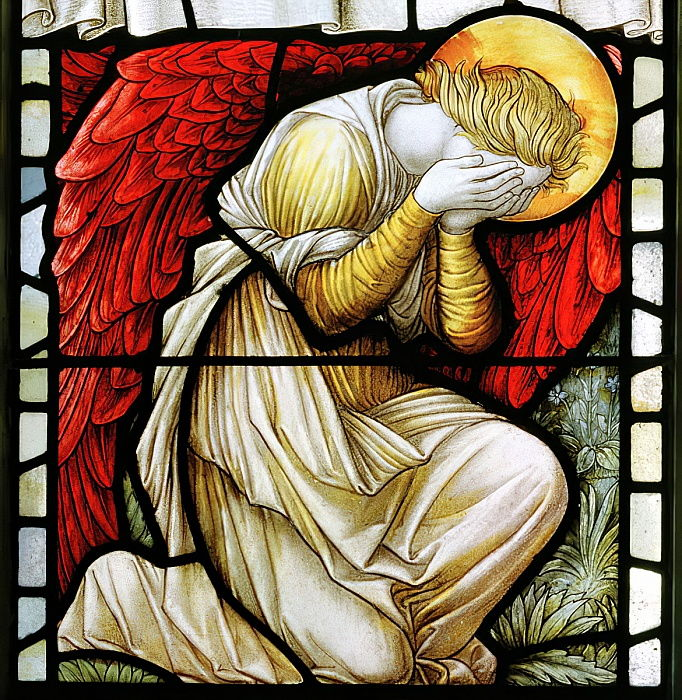 Detail of a stained-glass window in the Church of St Bledrws, Betws Bledrws, Ceredigion, produced by Shrigley and Hunt, and designed by Carl Almquist (1848-1924).